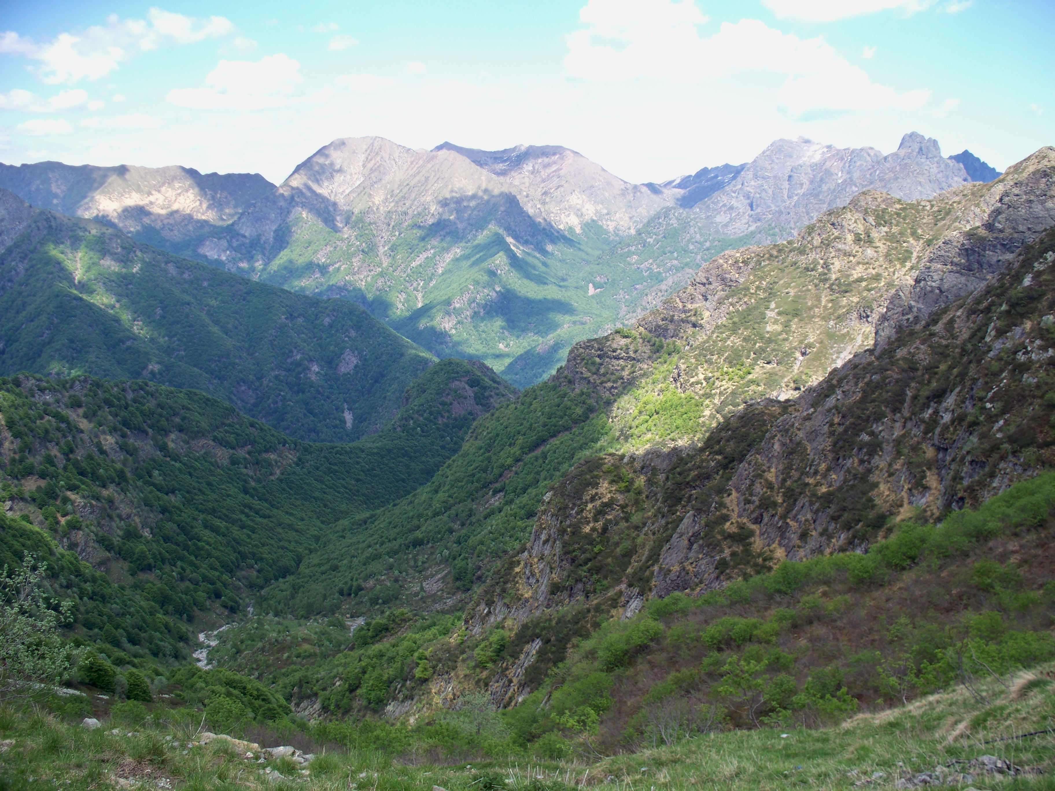 View into the Val Grande/Piemont/Italy from Alpe della Colma to the north